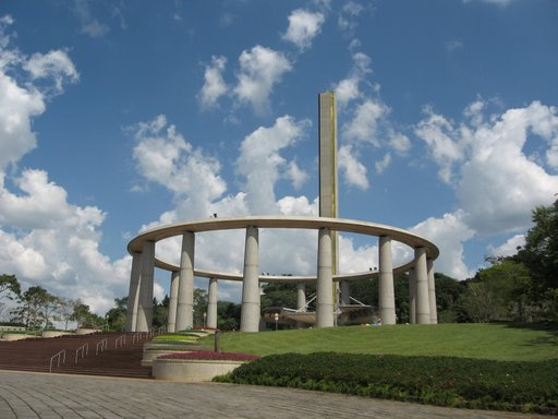 Photogrph of the Sacred Messianic Temple of Guarapiranga (Solo Sagrado).